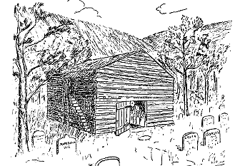 Old Hartslog Meeting House